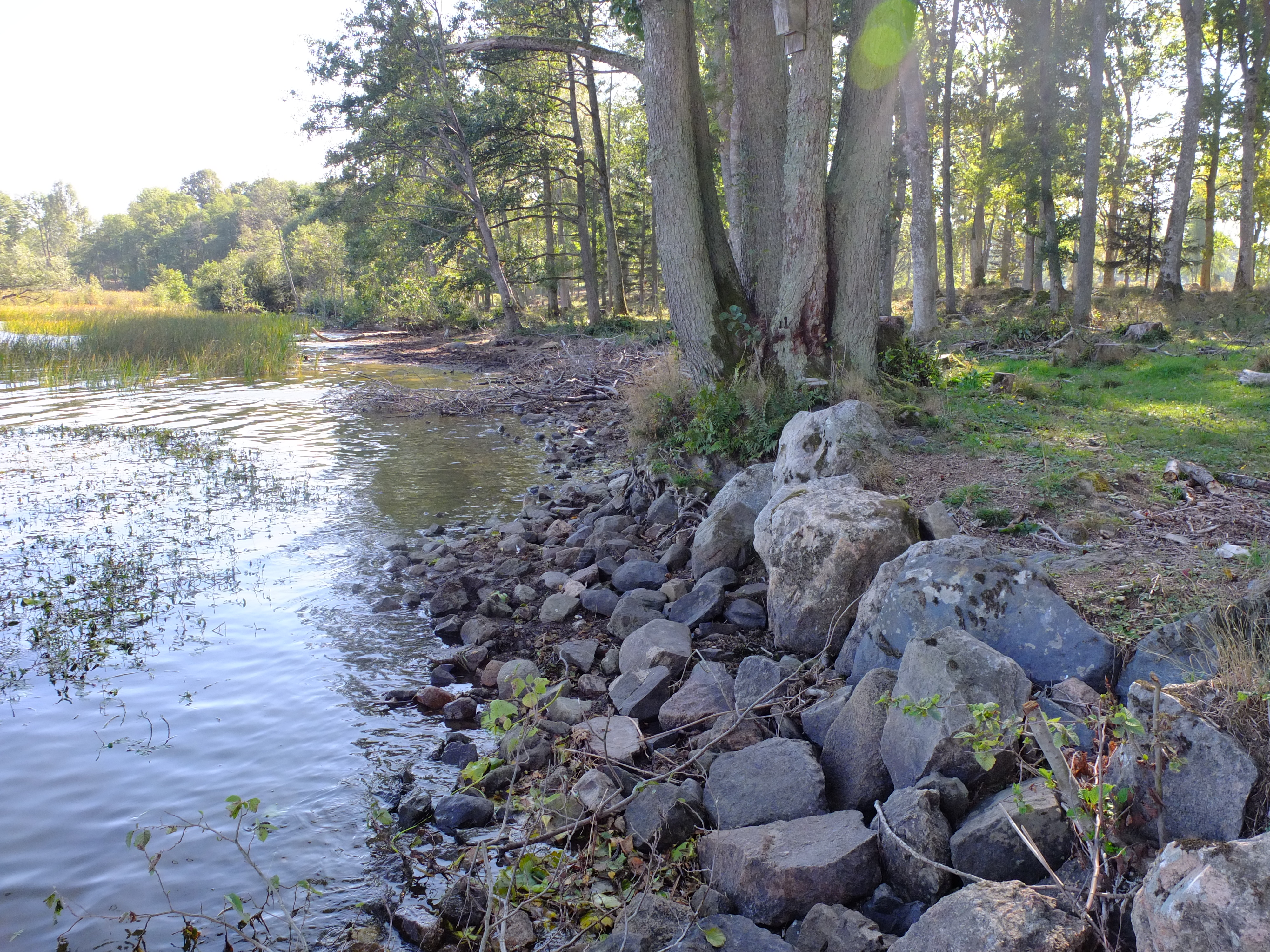 Lake lowering Hjälmaren. Difference between old and new shoreline.